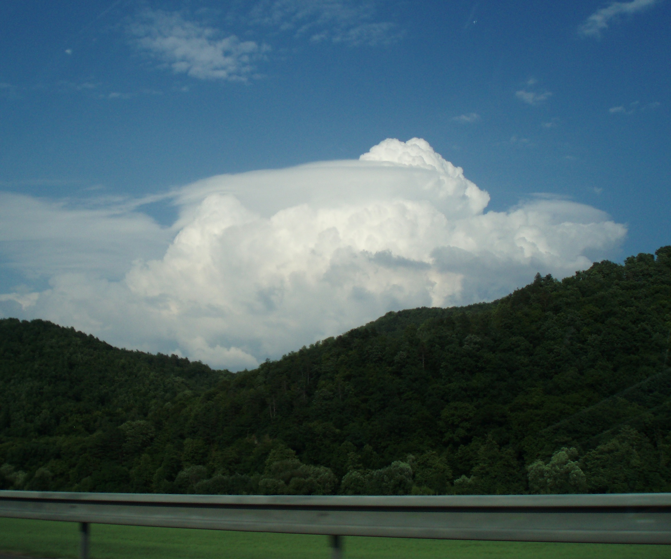 Cumulus congestus cloud